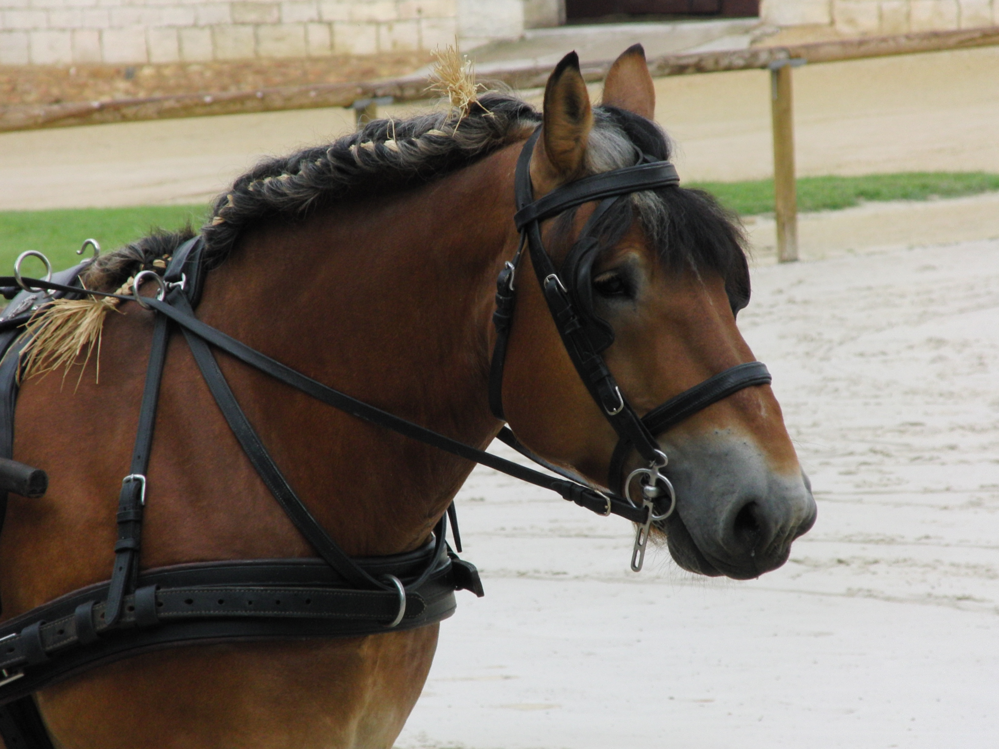 Head of an Auxois stallion, Haras de Cluny, Saône-et-Loire, France